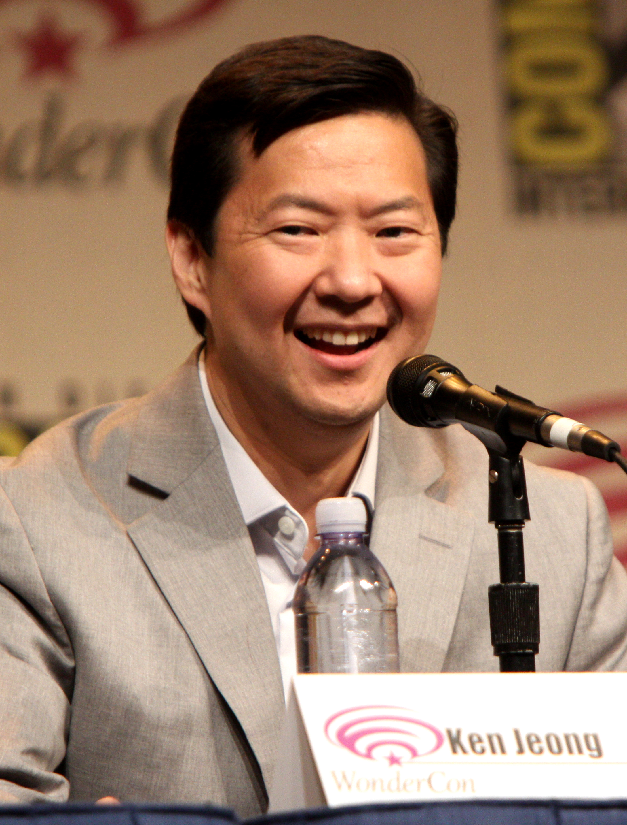 Ken Jeong speaking at Wondercon 2012 in Anaheim, California on March 18, 2012.